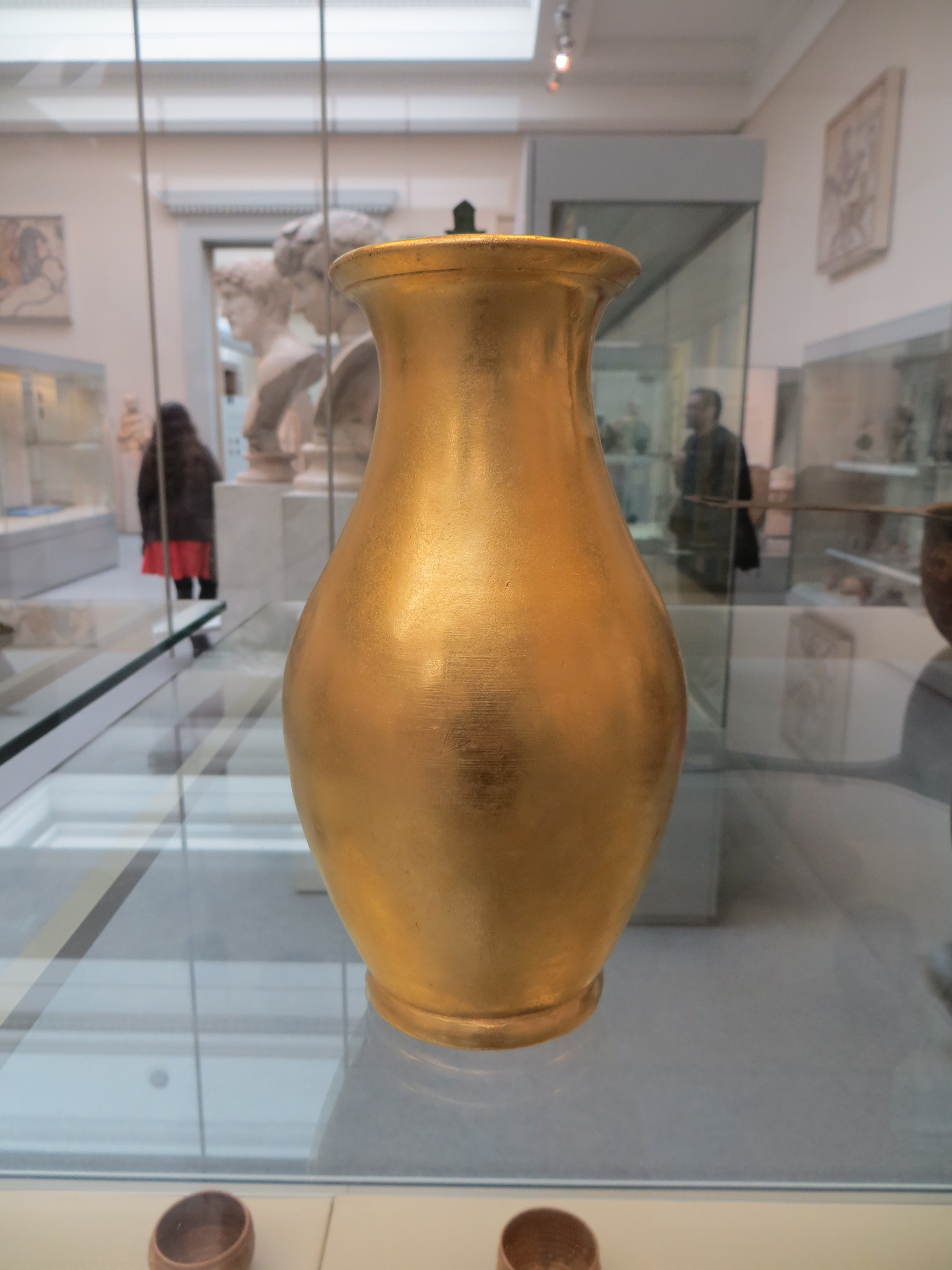 Roman gold vase found near Knidos in Turkey (British Museum)